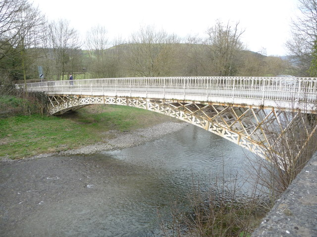 Llandinam Bridge: This bridge was the first cast iron bridge constructed in the county and was designed by Thomas Penson and built by David Davies, the industrialist and Liberal politician. It spans 90 feet (27.5 m).